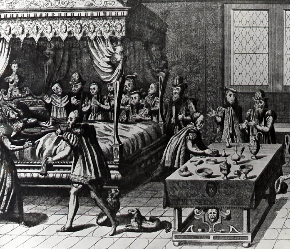 Deathbed of Henri II, king of France. Features Mary Stuart and her (new) husband, Francis II.